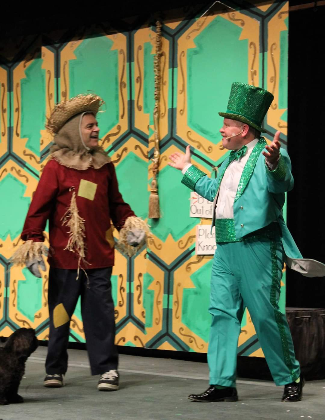 Mr Nelson